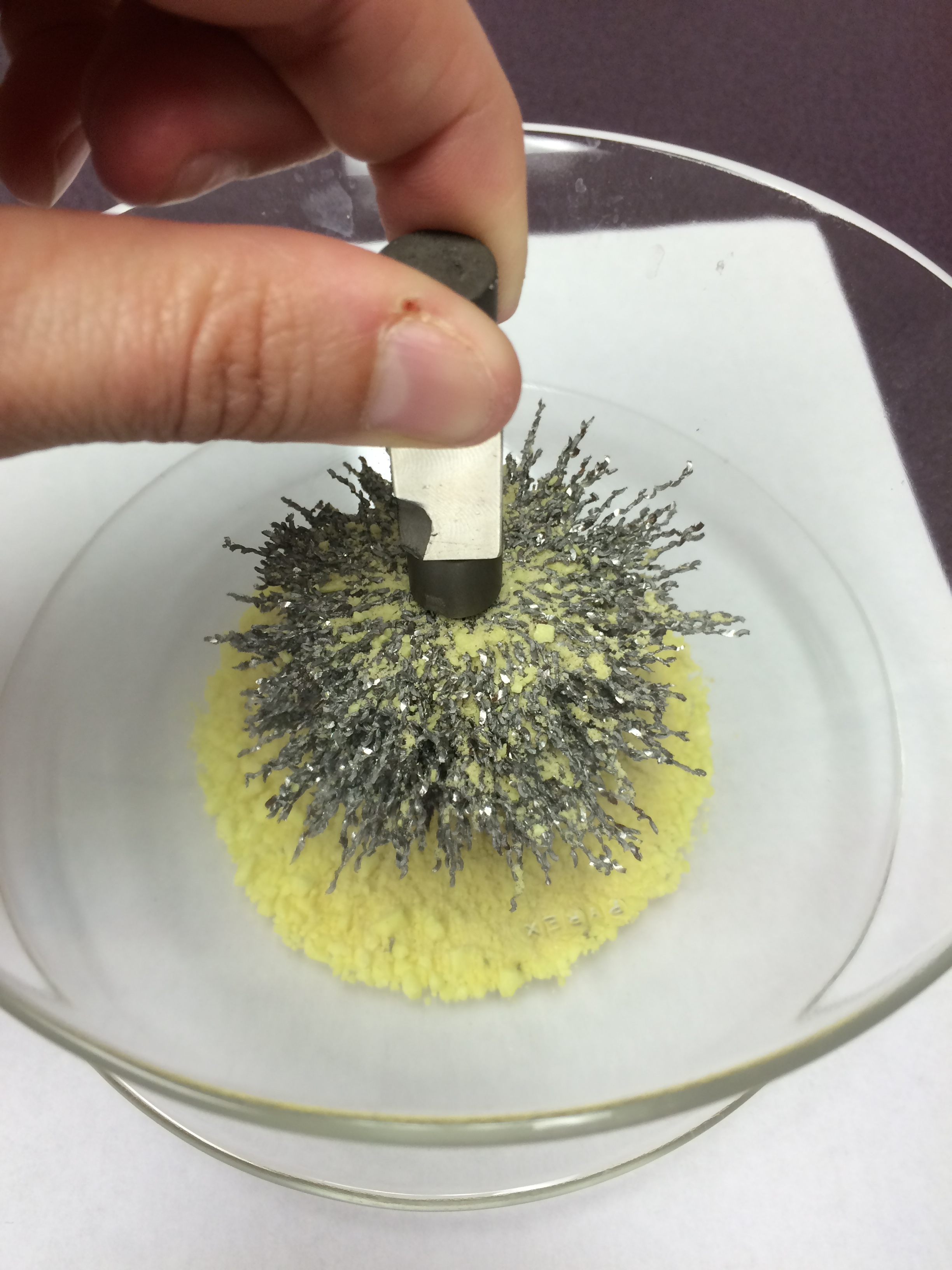 Mixture of iron and sulfur, separation by magnet